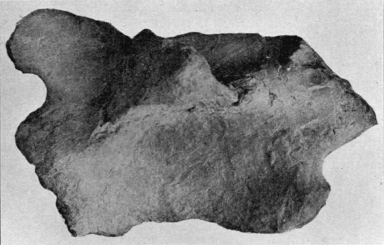 Photograph of the ilium of Paleorhinus bransoni in "The skull of Paleorhinus, a Wyoming phytosaur" by J. H. Lees (The Journal of Geology 15 (2):121-151). The ilium is now known to belong to Poposaurus gracilis.